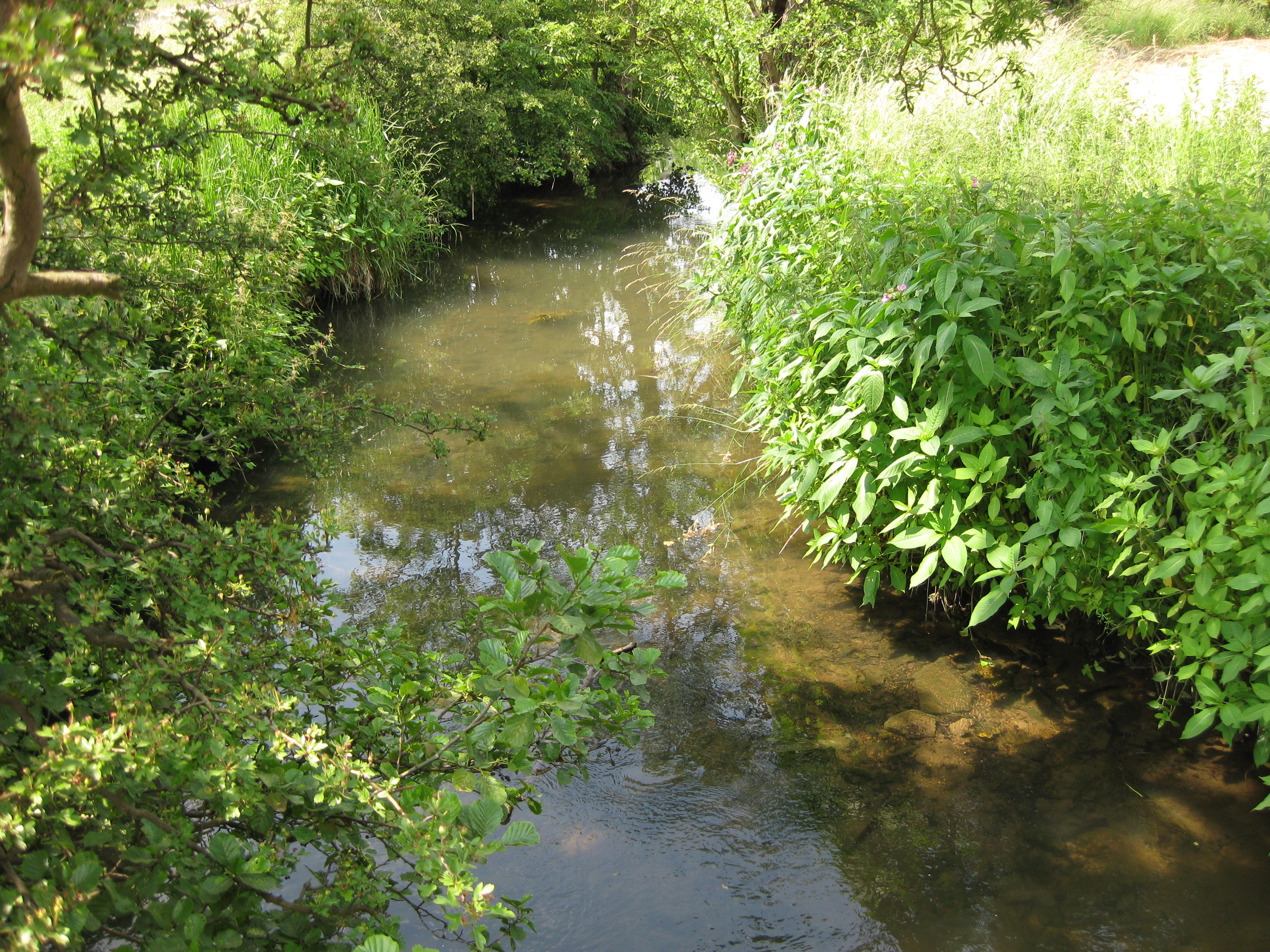 Cock Beck from the bridge near the Crooked Billet Inn on the B1217, North Yorkshire. Part of the Battle of Towton battlefield 1461.